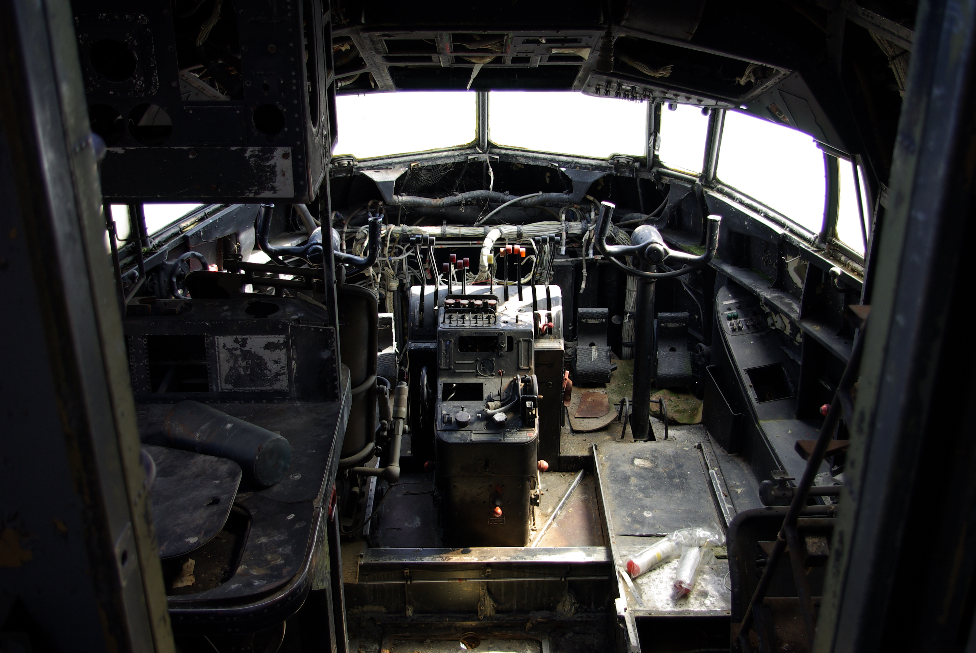 Cockpit of the Breguet 765 "Deux-Ponts" being restored at the association Ailes Anciennes de Toulouse (France).